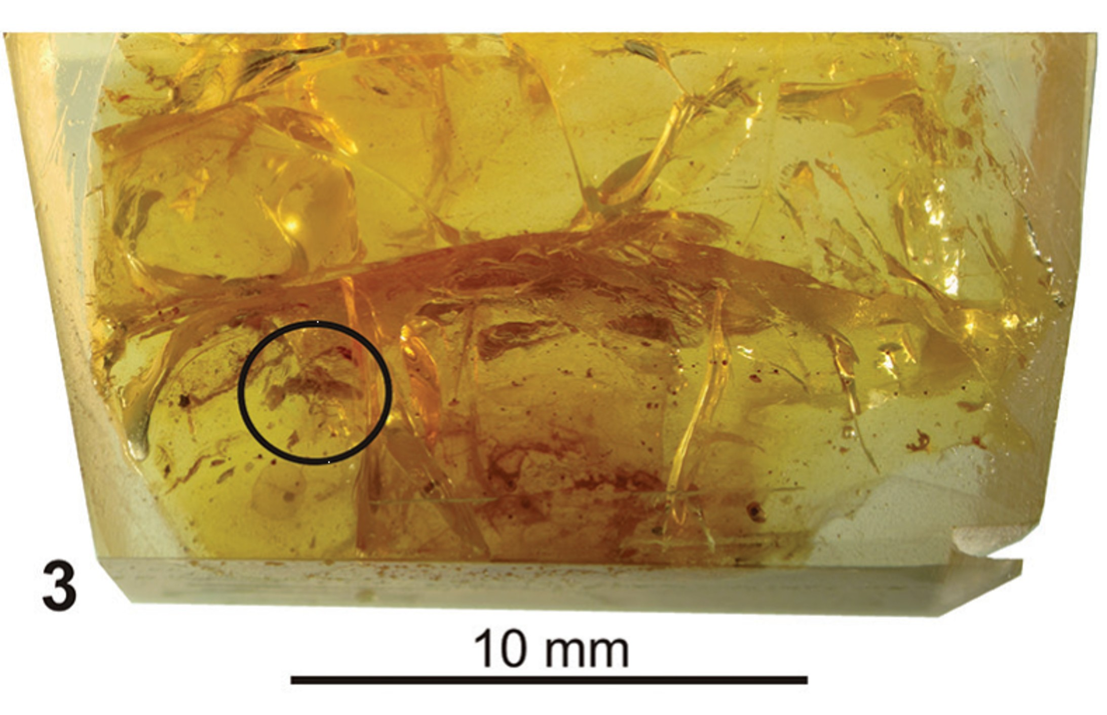 New Jersey amber containing specimens of Plumalexius rasnitsyni sp. nov. 3 Specimen NJ- 695, holotype (circled)